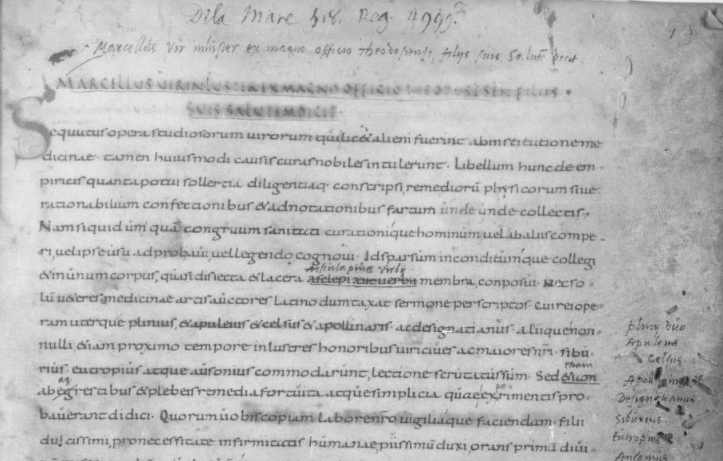 First lines of text of Marcellus De medicamentis, ms BNF Lat. 6880